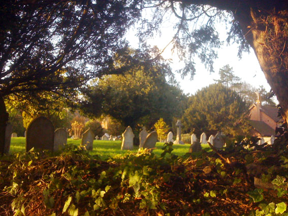 St Faith's churchyard, Winchester, taken from Kingsgate Road